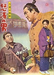 Movie poster for 1955 Japanese movie (力道山物語 怒濤の男 Rikidōzan monogatari dotō no otoko).